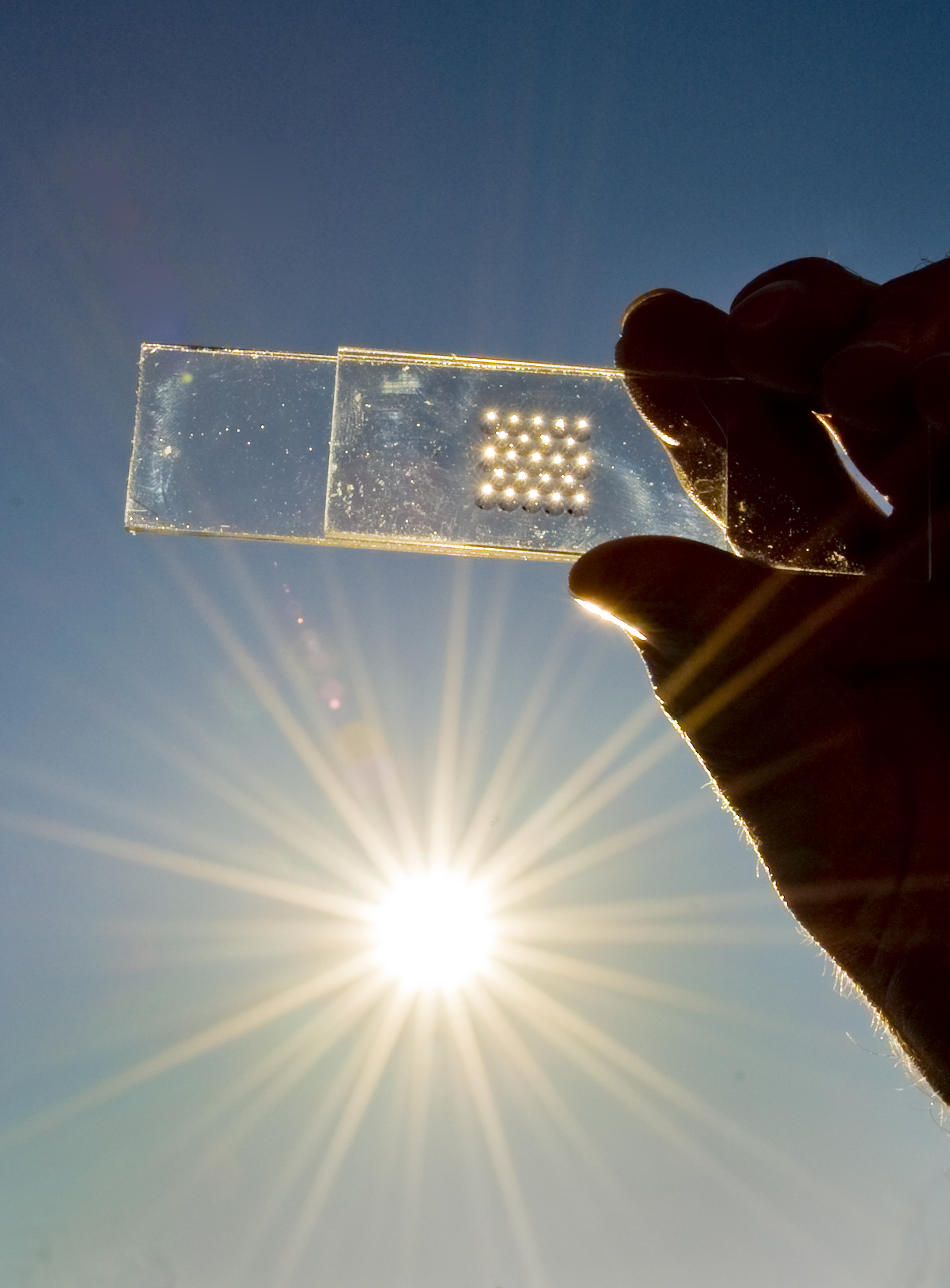 Researchers at Sandia National Laboratories developed tiny glitter-sized photovoltaic cells that are only 14 to 20 micrometers thick (a human hair is approximately 70 micrometers thick), yet perform at about the same efficiency as solar devices that use 100 times more silicon. Sandia’s microsystems enabled photovoltaics, also known as “solar glitter,” won a 2012 R&D 100 award.